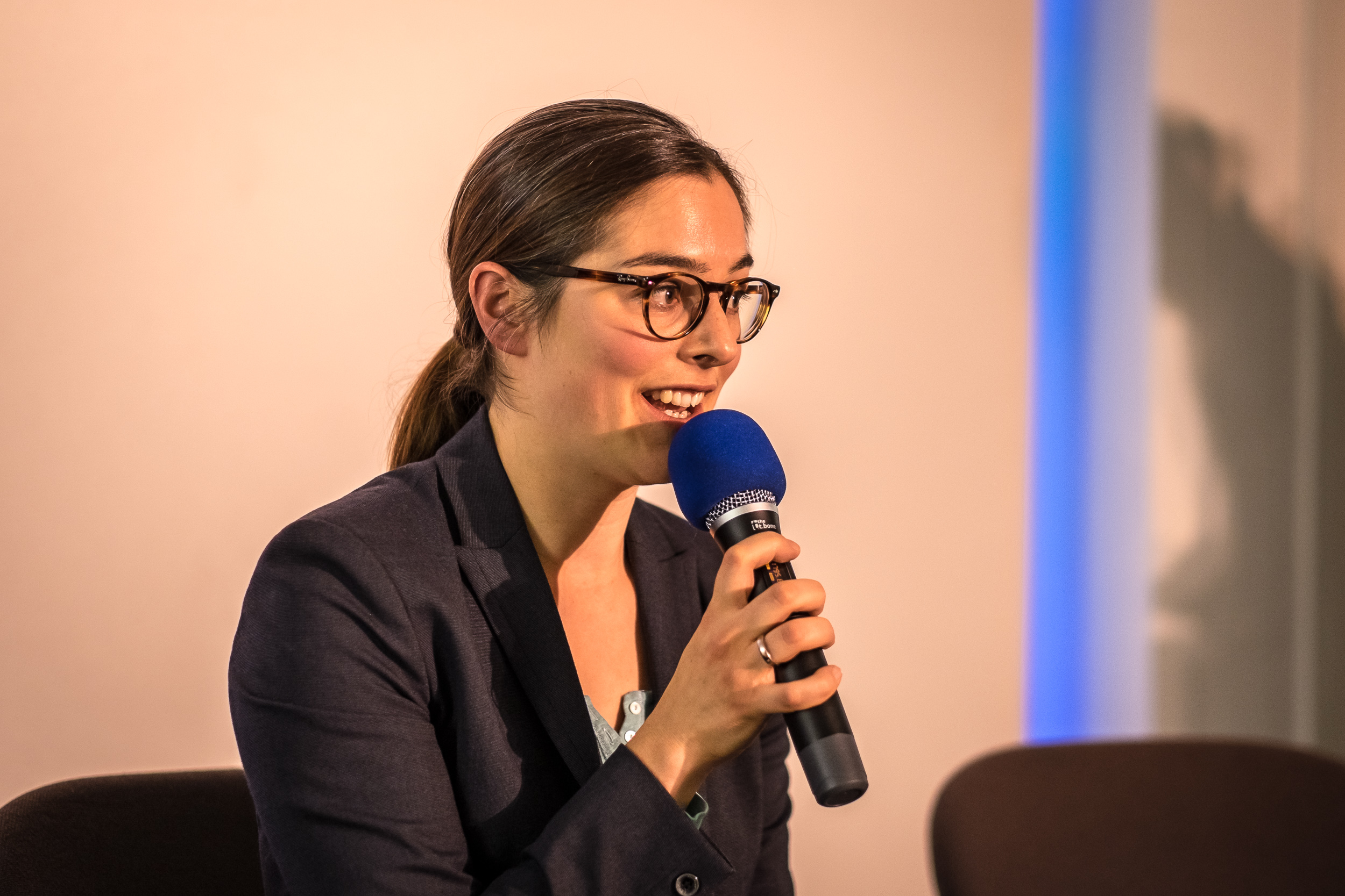 "After NSA-Gate" Public Talk with Moderation: Anna Sauerbrey (Berlin)